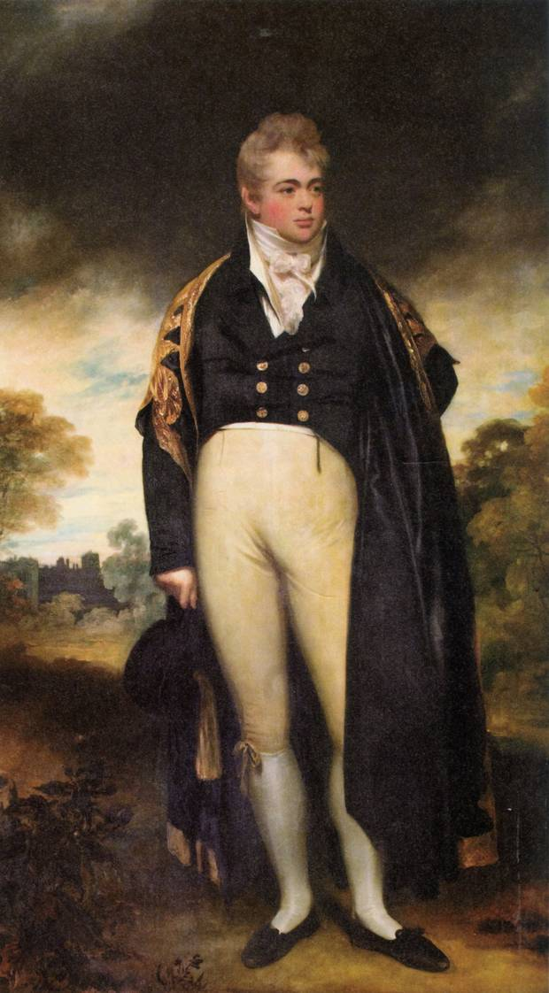 Painting of Howe Browne (1788 – 1845), 2nd Marquess of Sligo, the Anglo-Irish Aristocrat.